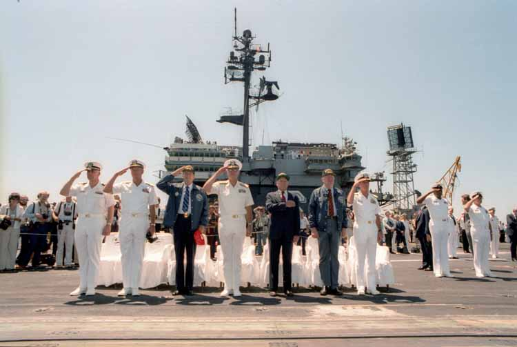 C3574-4, President Reagan aboard the aircraft carrier USS Constellation (CV-64) watching a weapons training exercise with Captain Dennis Brooks, Admiral James Watkins and other Naval officials and Ed Meese, 20 August 1981.